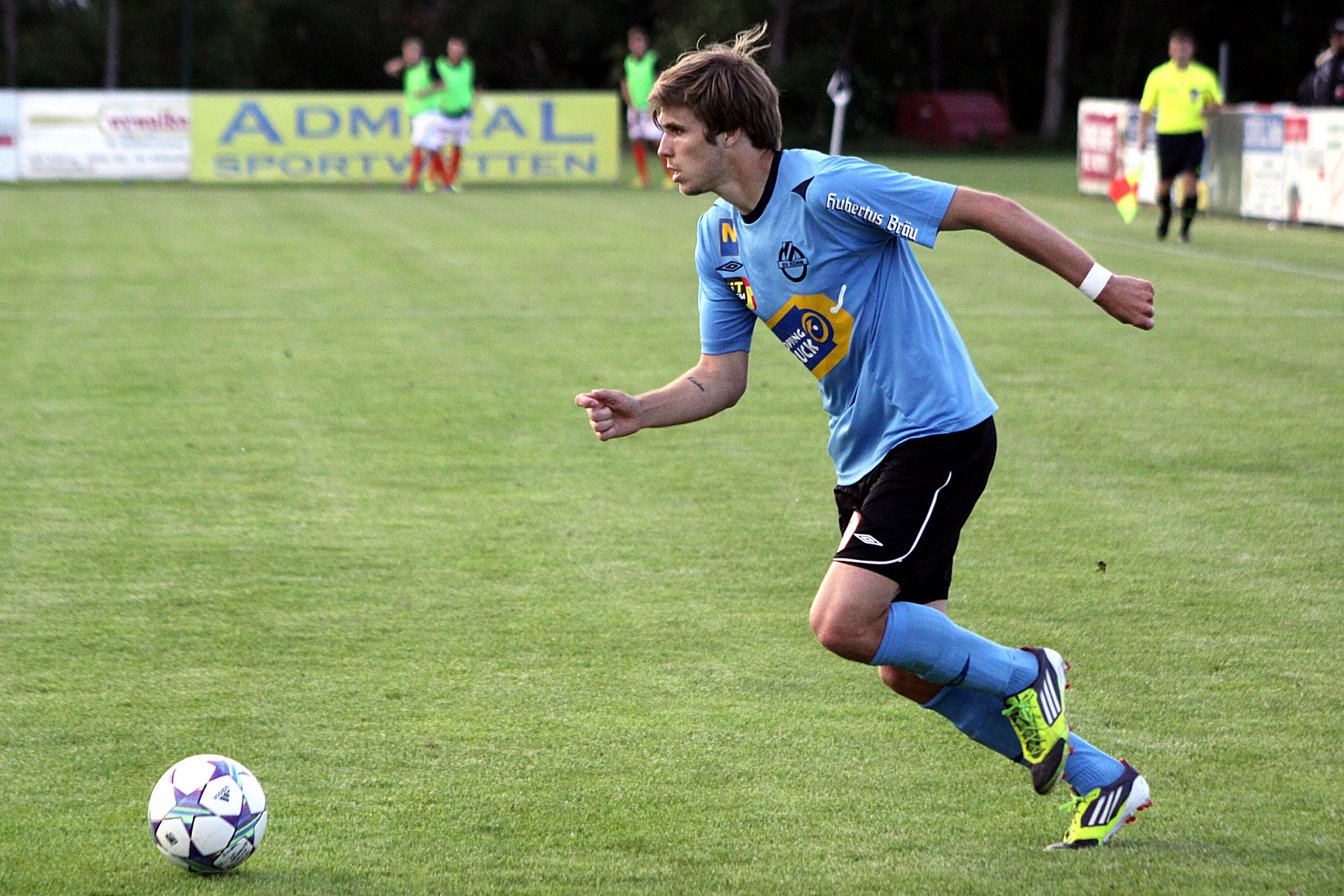 1. SC Sollenau vs. SV Horn at 2012-05-25 in Sollenau 3:1 (3:0). – The photo shows Philipp Zulechner (SV Horn). Object location47° 54′ 04.4″ N, 16° 14′ 35.78″ E